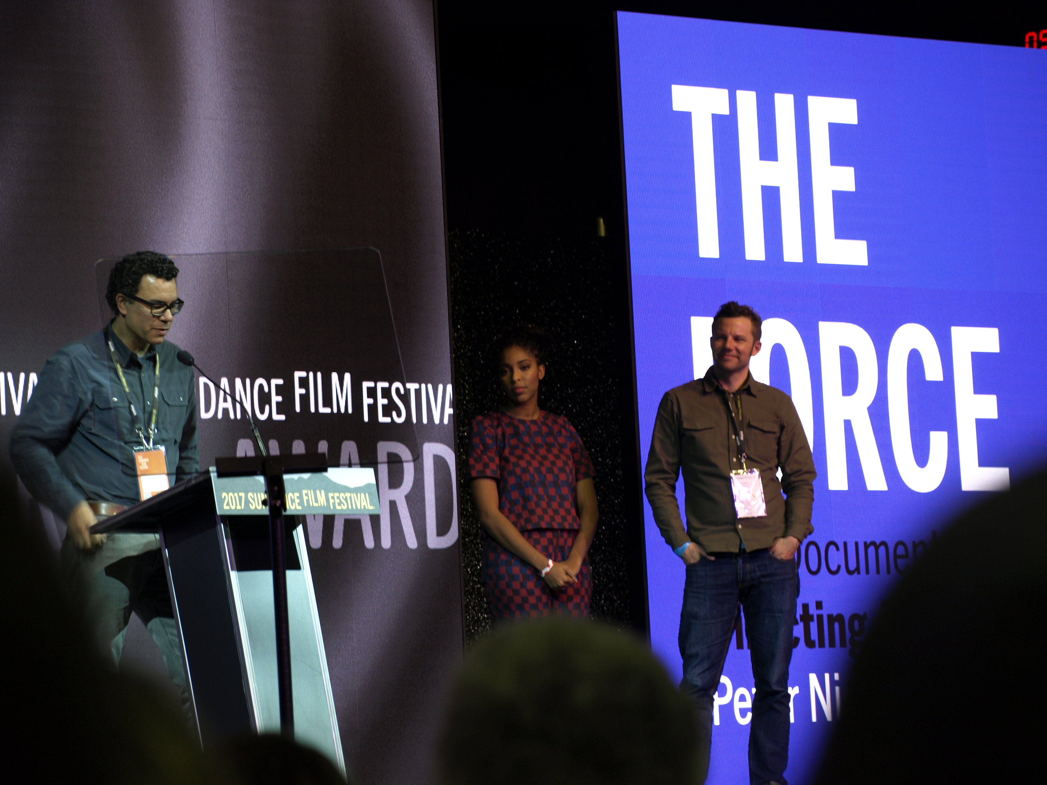 "The Force" won the Directing Award: U.S. Documentary at Sundance 2017, Park City UT